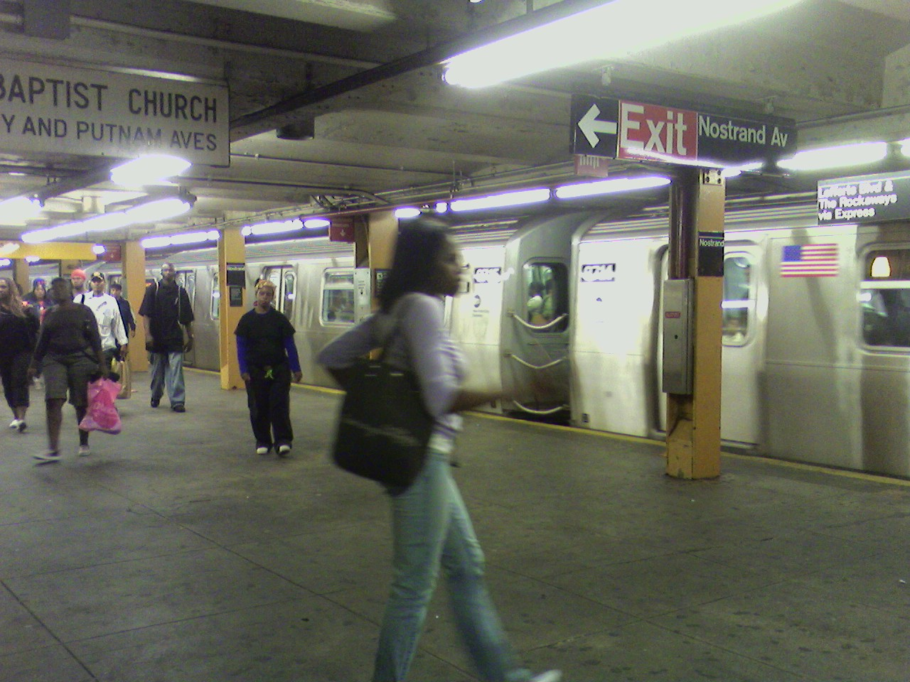 The Nostrand Avenue subway station in Brooklyn, New York.